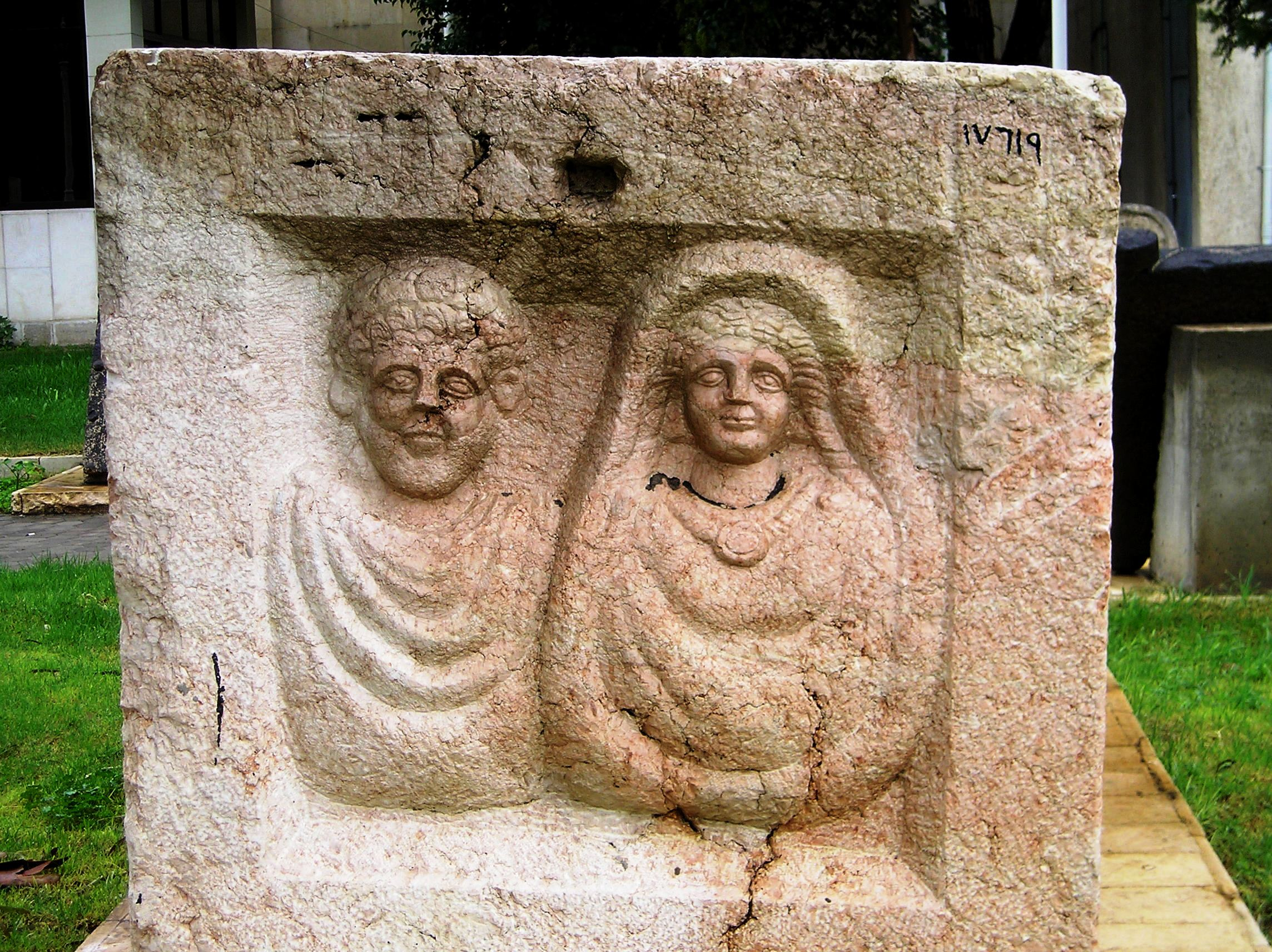 Damascus museum couple in stone